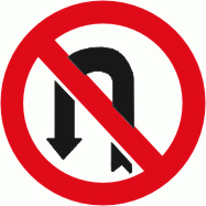 Diagram of road signs of Luxembourg